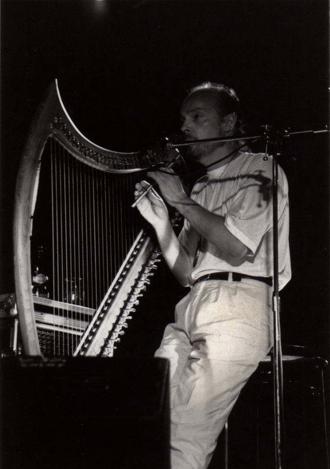 Alan Stivell at the Festenal world music festival in Dolceacqua (northern Italy) in August 1991 (Festenal di Dolceacqua nell'agosto).